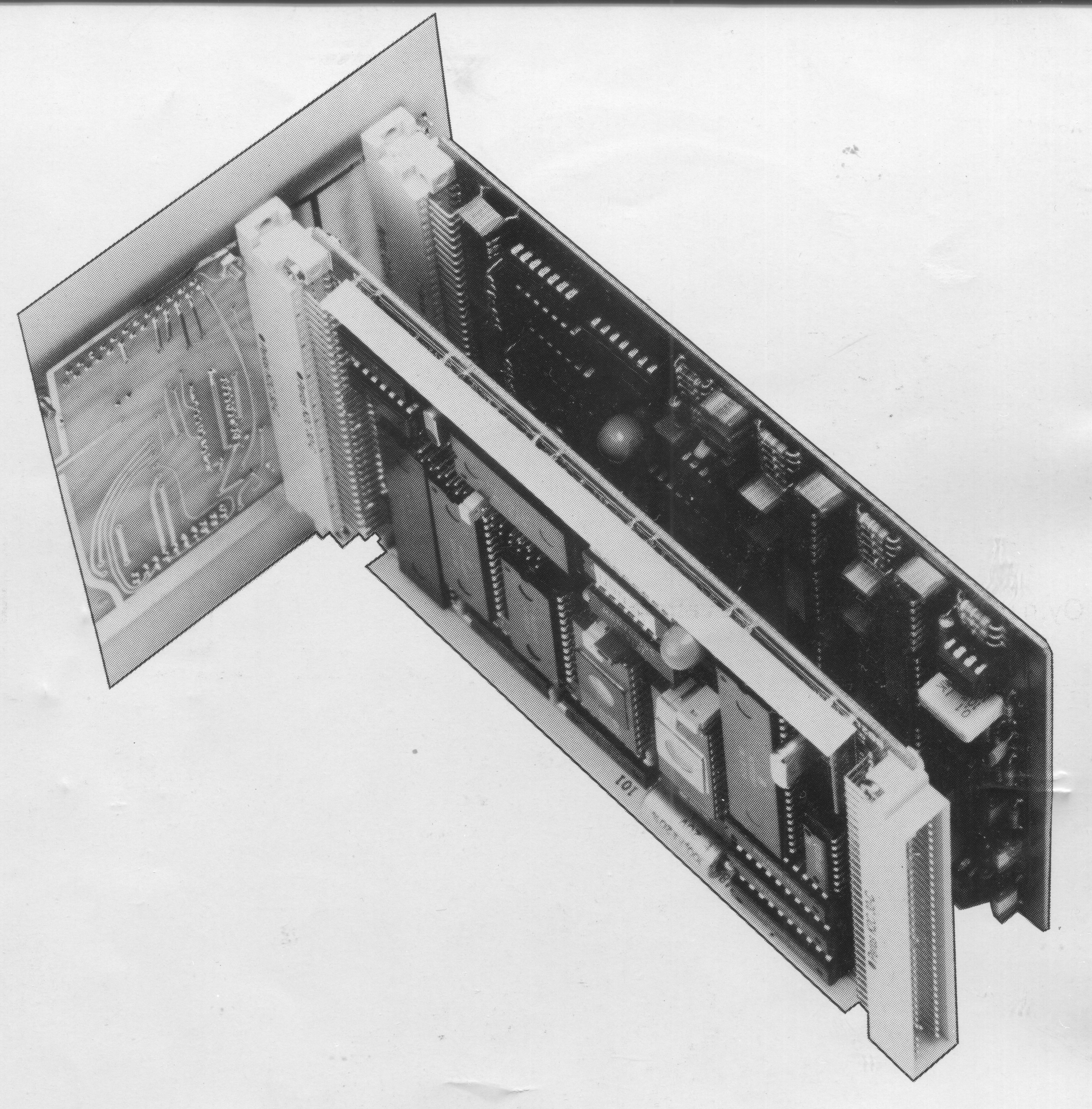 Synte 3 speech synthesizer (1982)